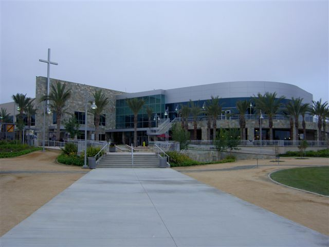 Mariners Church, Irvine, CA - Worship Center Front Entrance